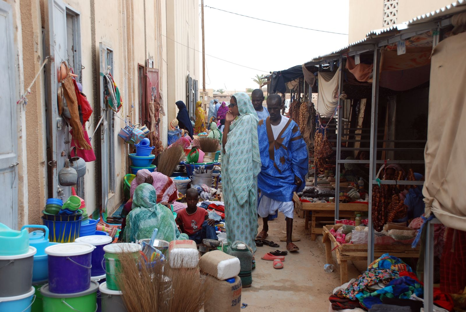 Atar, Mauritania, market